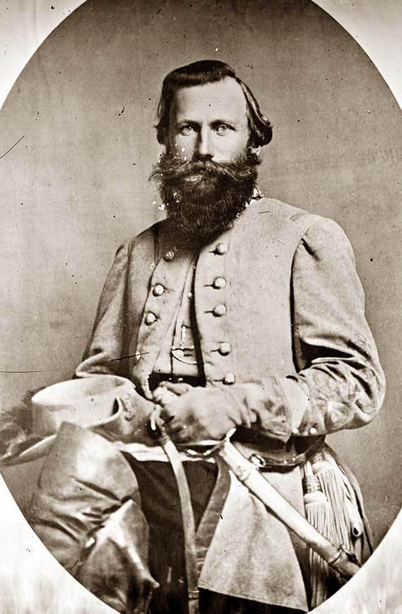 James Ewell Brown Stuart